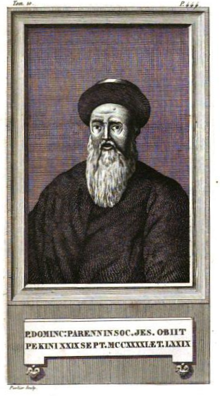 Portrait of Dominique Parennin, published in vol. 10 of the "Lettres Édifiantes Et Curieuses", soon after his death in 1740.